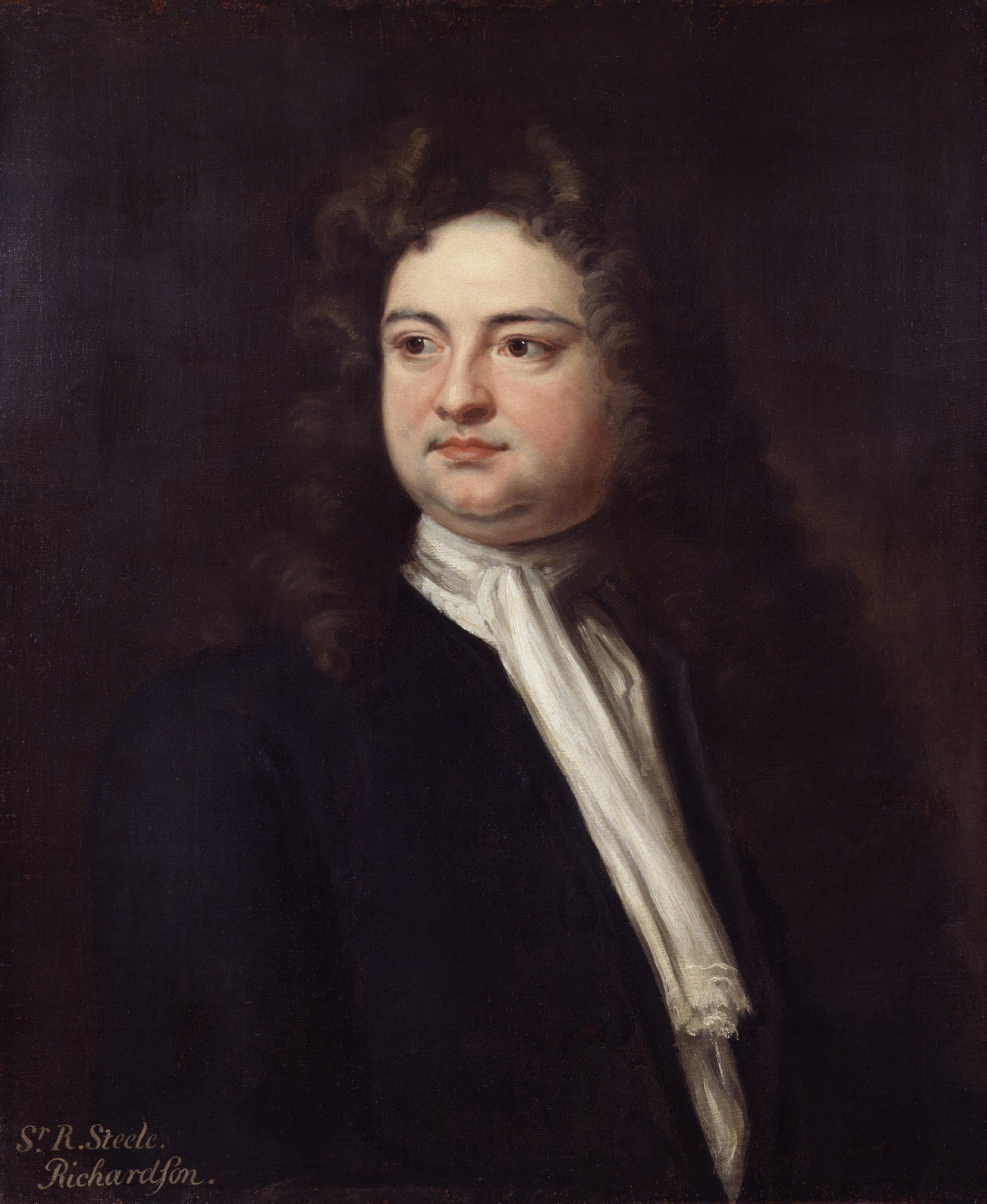 Sir Richard Steele, by Jonathan Richardson (died 1745). All images in this batch have been confirmed as author died before 1939 according to the official death date listed by the NPG.